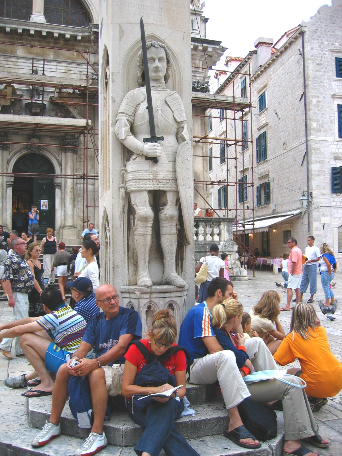 Statue of Orlando, symbol of freedom, Dubrovnik, Croatia